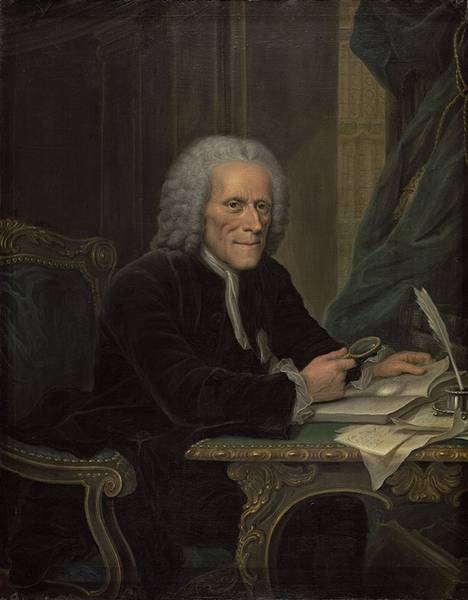 Portrait of Johann Christian Wolf (1690-1770), Staatsbibliothek Hamburg